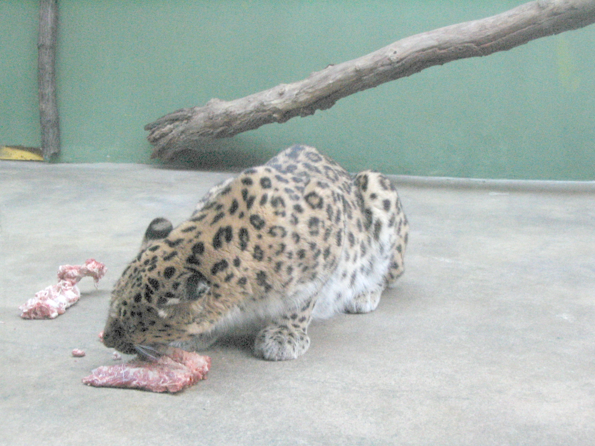 Amur Leopard eating meat in Prague Zoo.